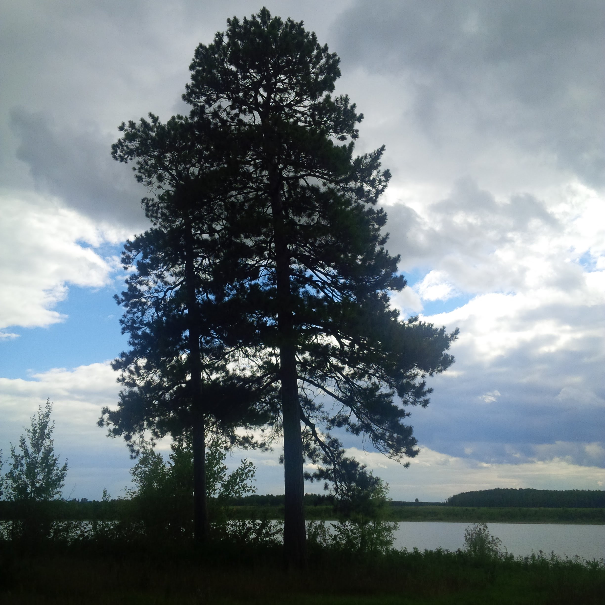 White Pine trees growing along the Rainy River